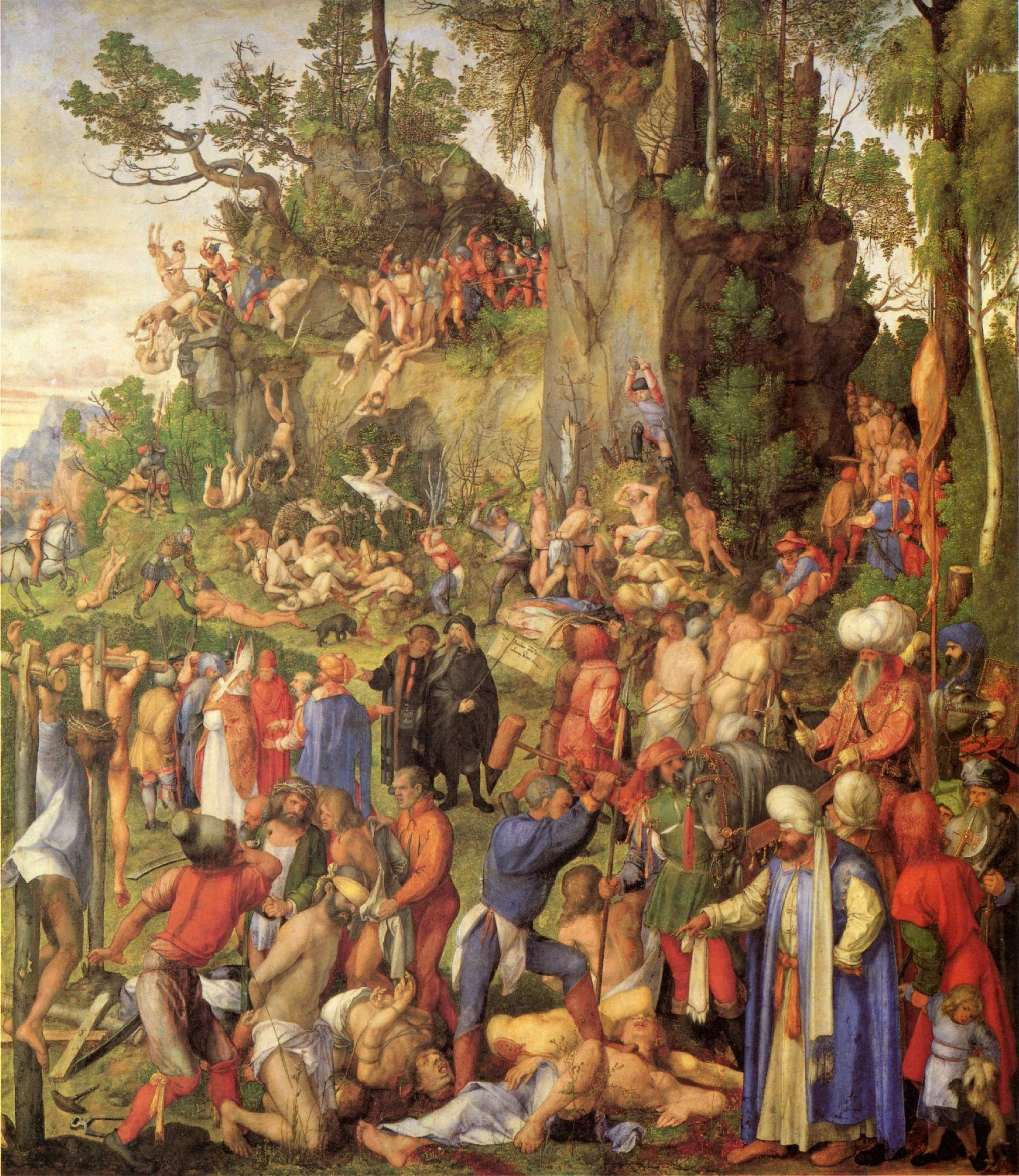 The person accomanying Dürer was sometimes identified as Willibald Pirckheimer.